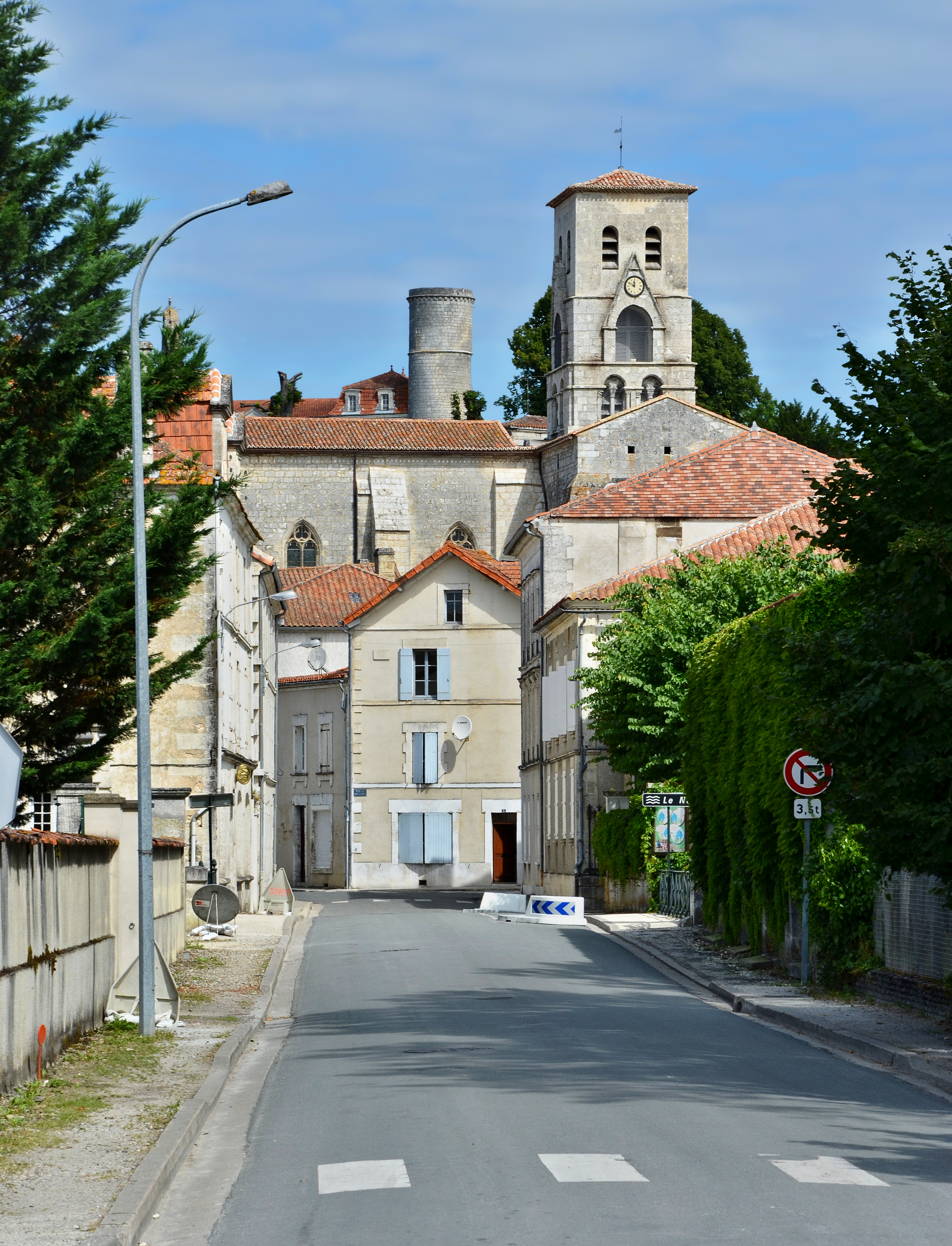 S-SE entrance of the village (with church and castle towers), Blanzac, Charente, France.